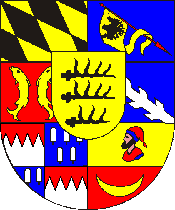 Coats of arms of the duchy of Württemberg (1786-1789) 1. Duchy of Teck; 2: reichssturmfahne; 3: Count of Mömpelgard; 4: Lordship of Justingen; 5: County of Limpurg; 6a: Lordship of Heidenheim; 6b: Lordship of Bönnigheim; Heart: Duchy of Württemberg